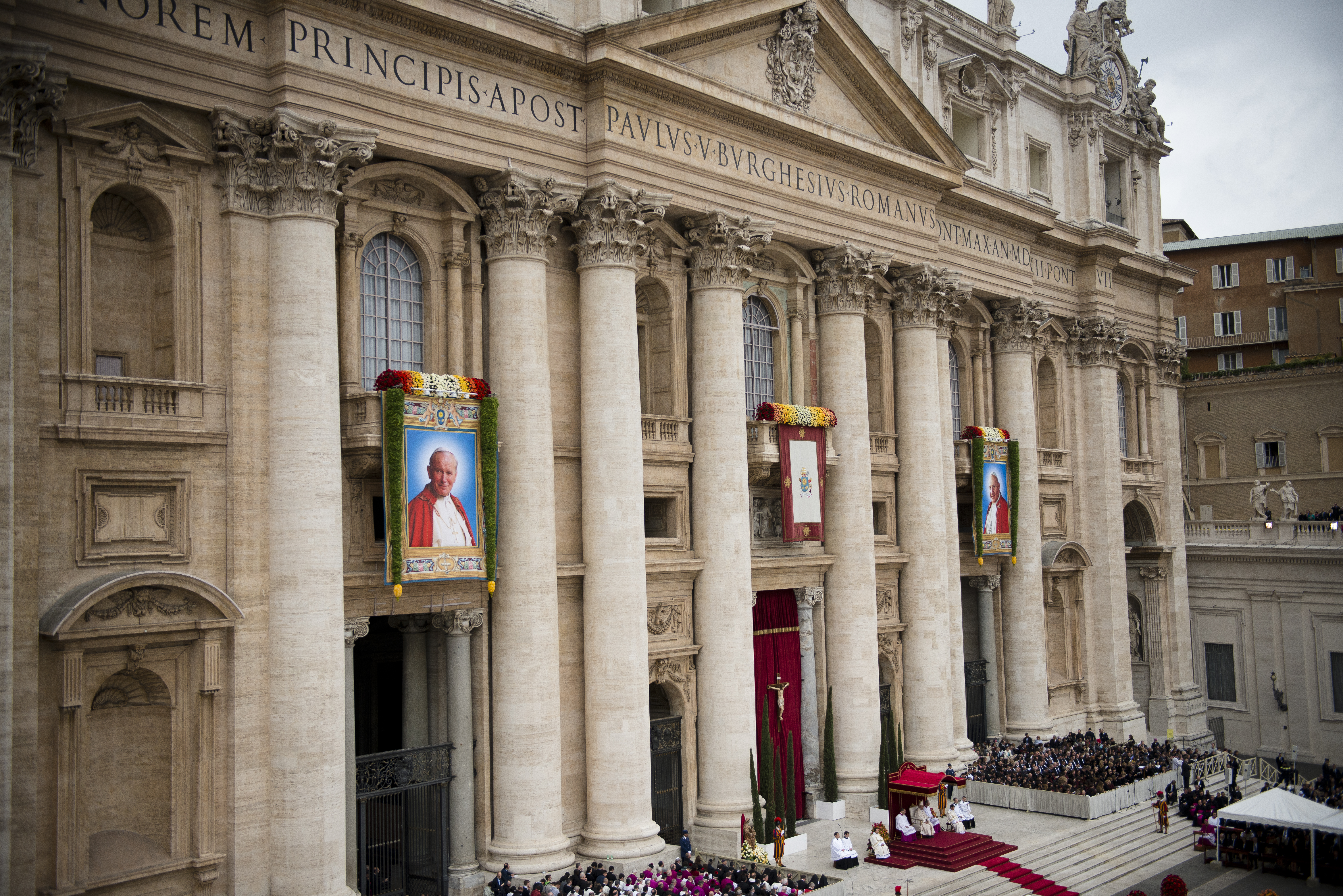 ROME,VATICAN 27 APRIL: Images taken from what will go down in history as one of the largest and most important days in current history. The Canonization of Blessed Pope John XXIII and Blessed Pope John Paul II. Two beloved Popes from the 20th Century.